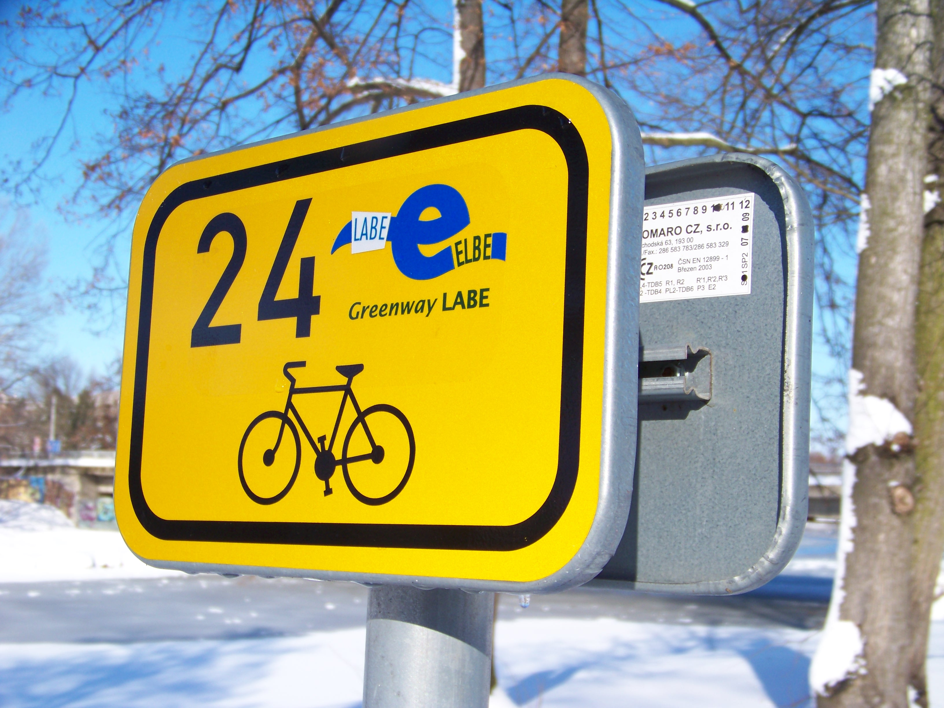 Hradec Králové, the Czech Republic. Cycling route sign of Greenway Labe. - Google Maps - Google Earth